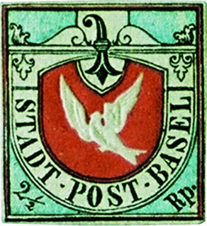 Image of an unused Basel Dove.